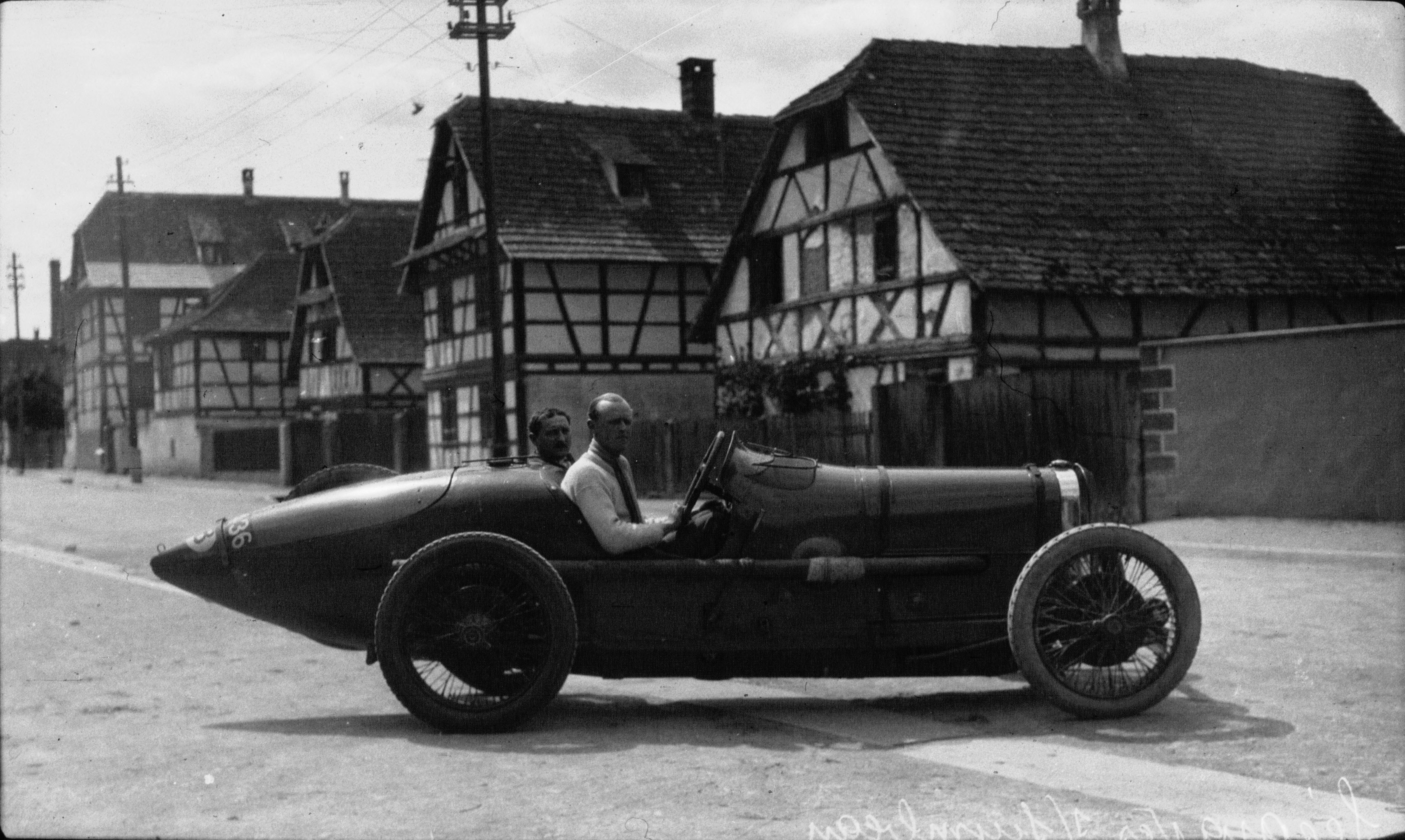 Henry Segrave at the 1922 French Grand Prix